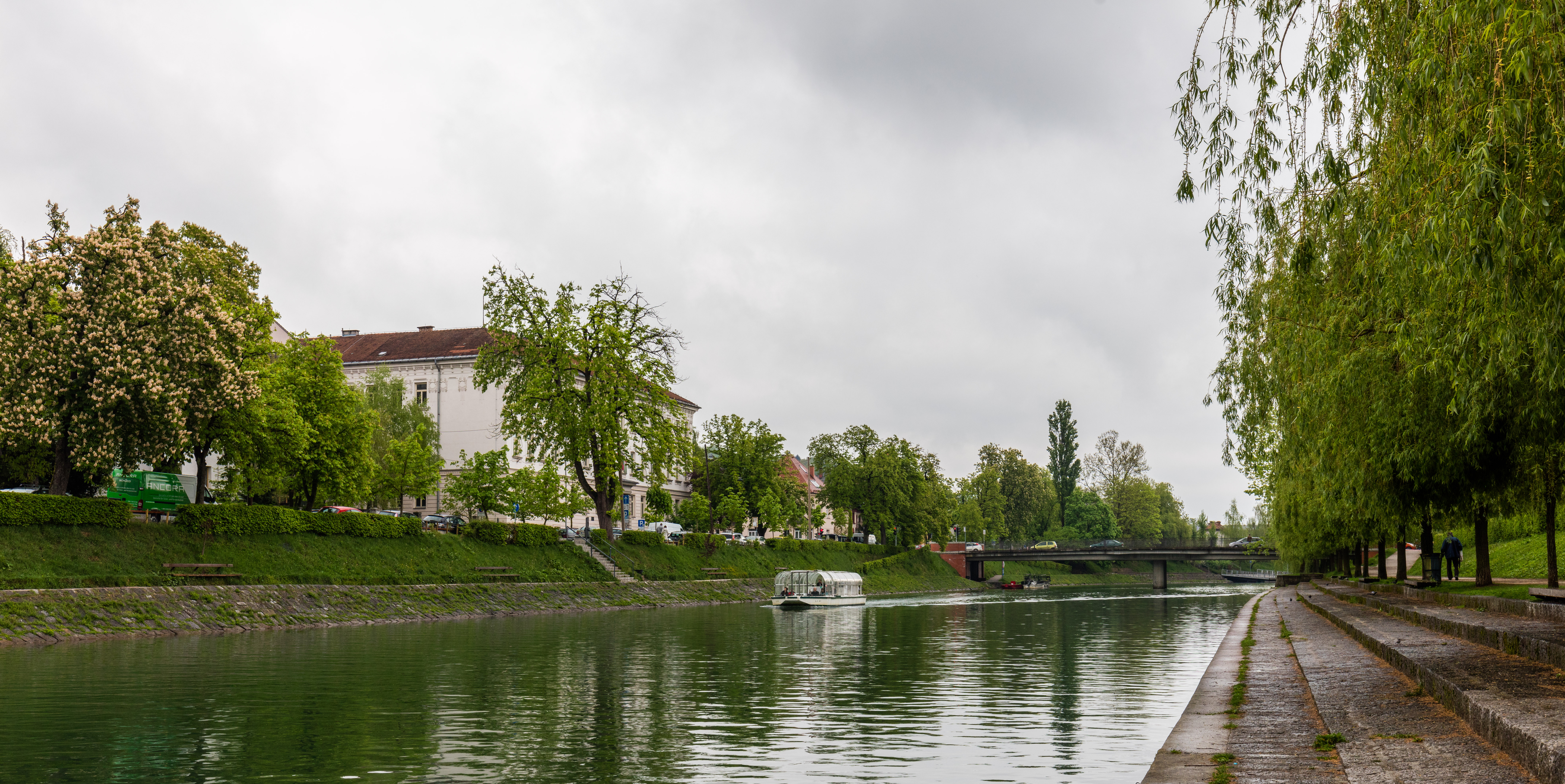 Ljubljanica river, Ljubljana, Slovenia